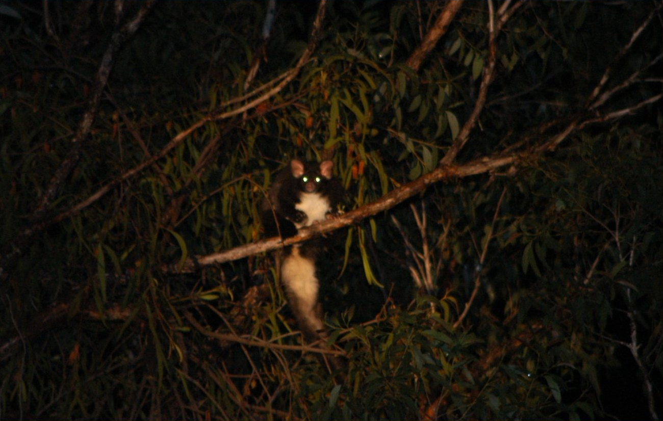 Greater Glider, Petauroides volans in the upper tree canopy, Mount Royal National Park